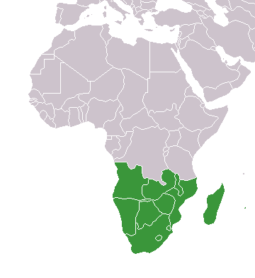 Countries of southern Africa.